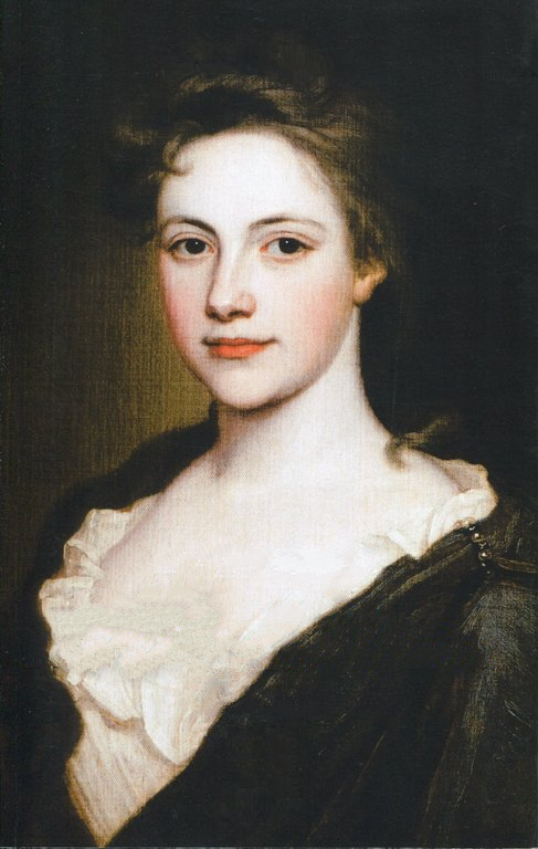 Portrait of Luísa Clara de Portugal, called the "Flor da Murta" ("Myrtle Flower"), one of the many mistresses of King John V of Portugal.